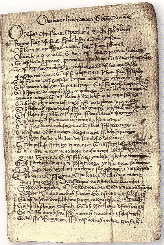 Pray of Šibenik (Middle of 14th century)